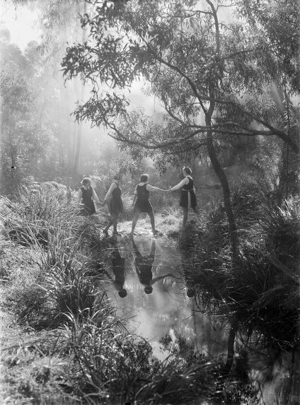 Author:Cazneaux, Harold, 1878-1953 Date created:1934 Image title:Stepping stones [picture] Source: National Library of Australia Description: Students in bushland at Frensham School, 1934.